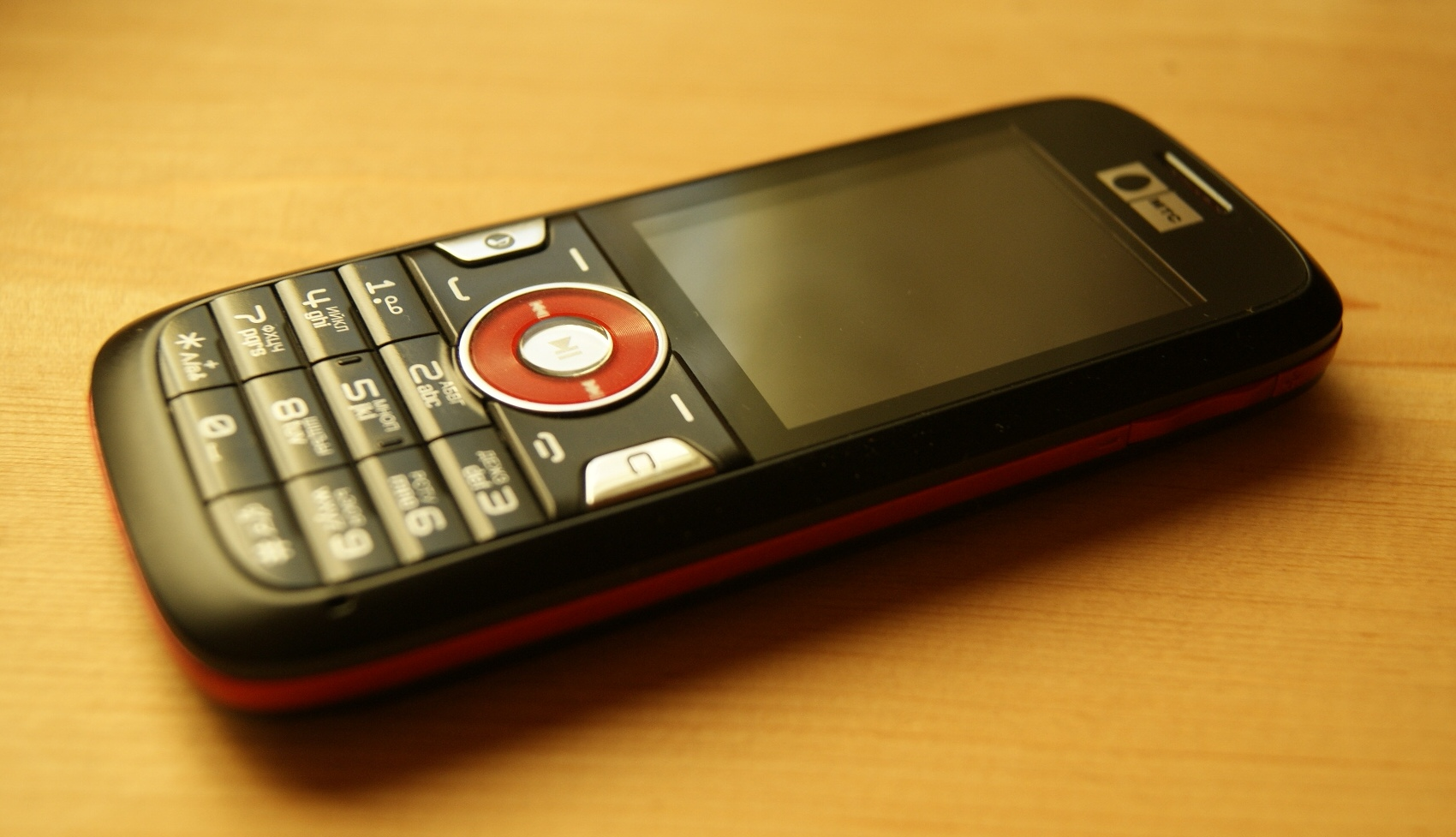 Right side of MTS 733 mobile phone